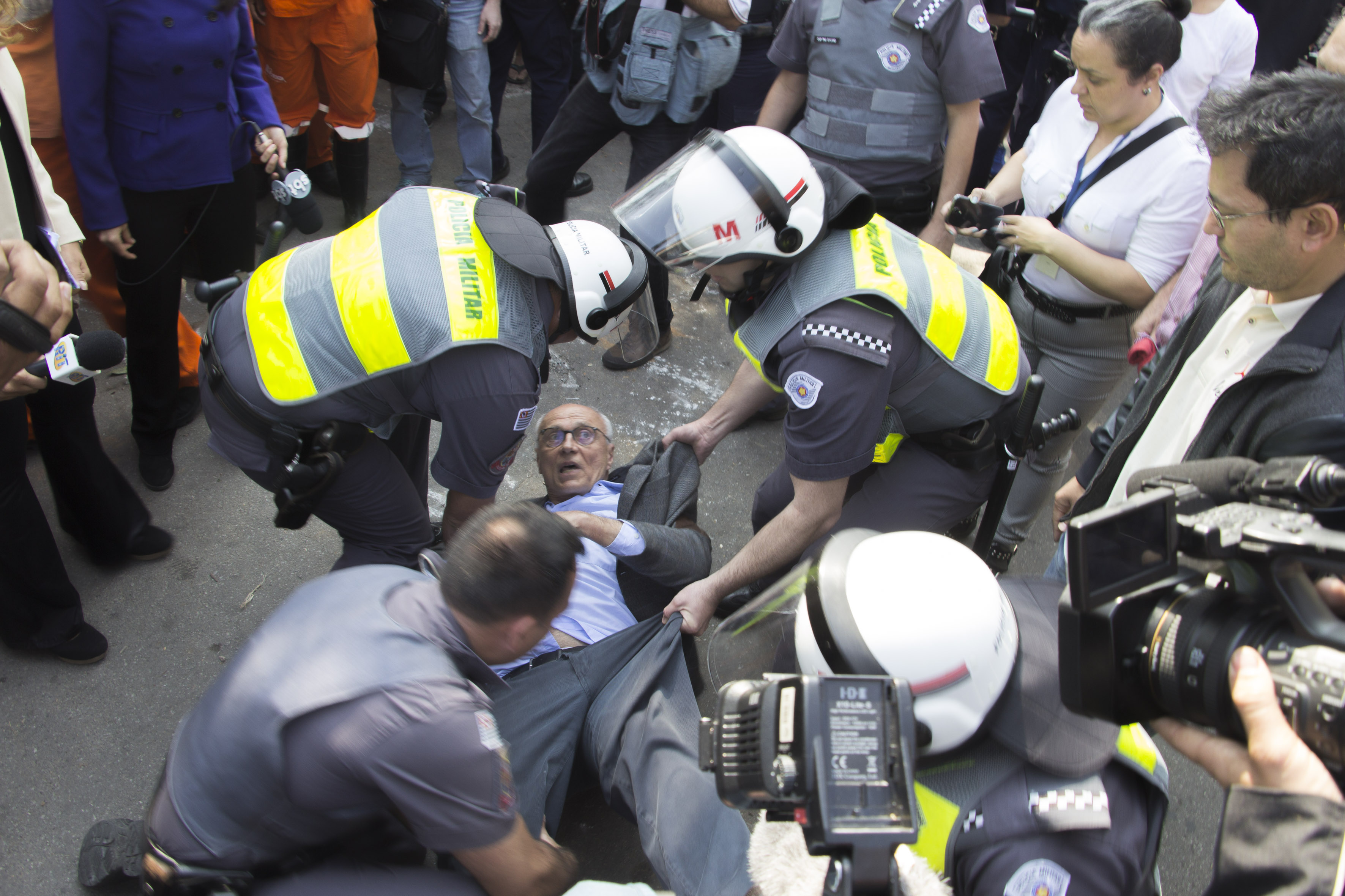 O ex-senador Eduardo Suplicy é detido em reintegração de posse próximo a Cohab Educandário